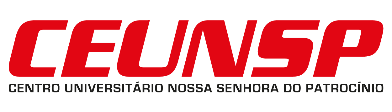 Logo of the Centro Universitário Nossa Senhora do Patrocínio (CEUNSP)